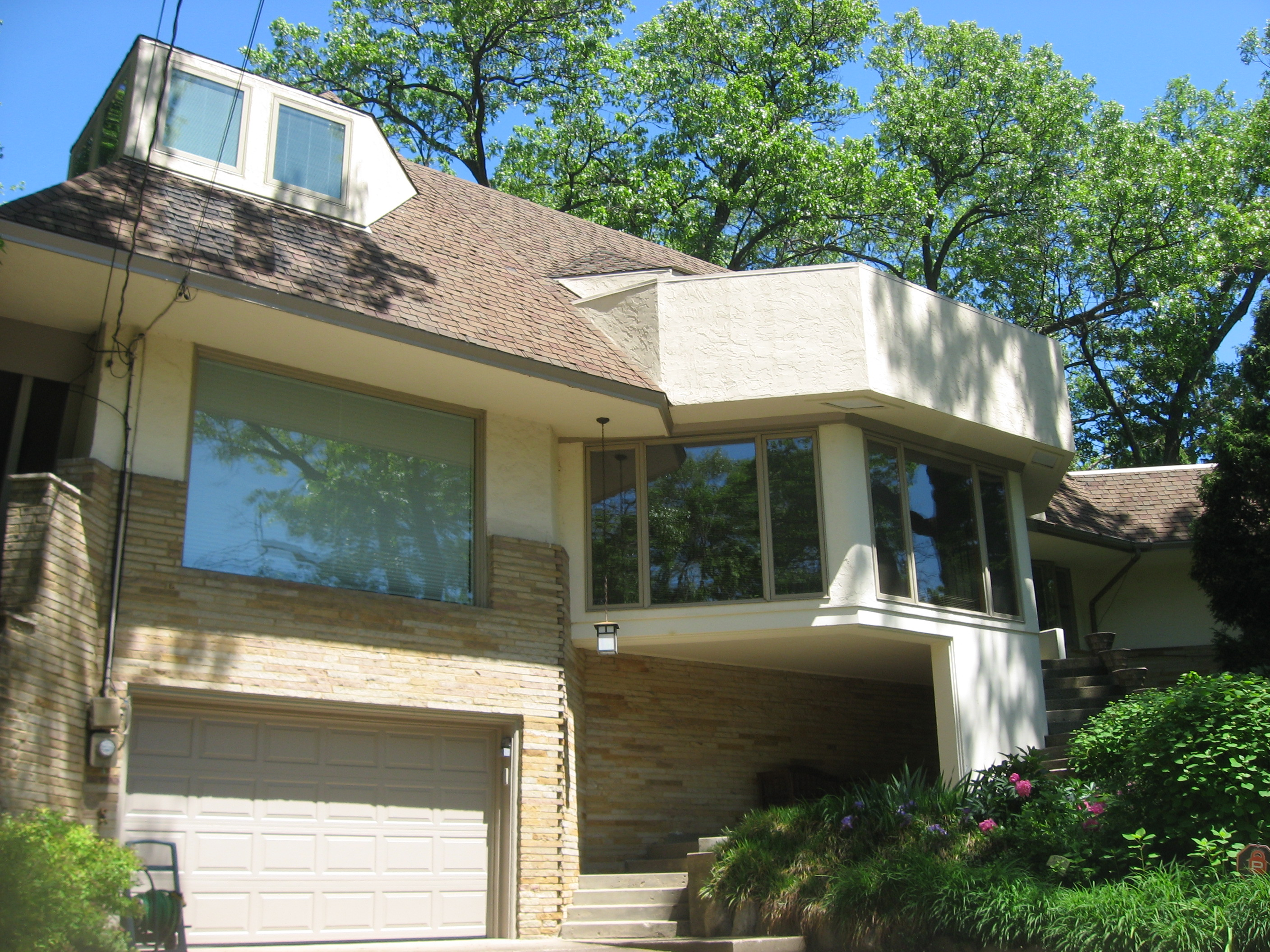 Street view of the Hoover-Timme House, located at 2304 Hazeltine Drive in Long Beach, Indiana, United States. Built in 1929 according to a design by John Lloyd Wright, it is listed on the National Register of Historic Places.